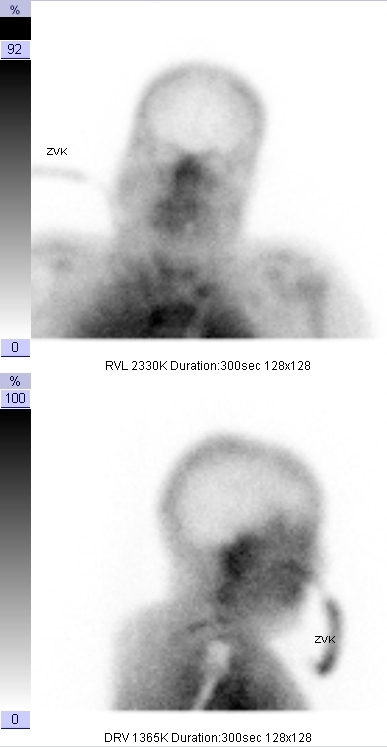 Scintigrafy of brain perfusion. Missing brain perfusion proofs brain death.